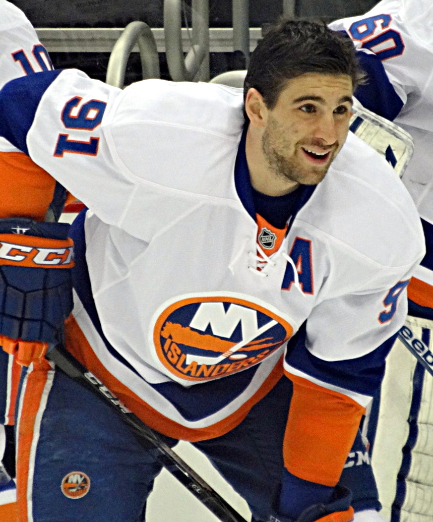 New York Islanders forward John Tavares during round one, game five of the 2013 Stanley Cup playoffs against the Pittsburgh Penguins, May 9, 2013 at Consol Energy Center.